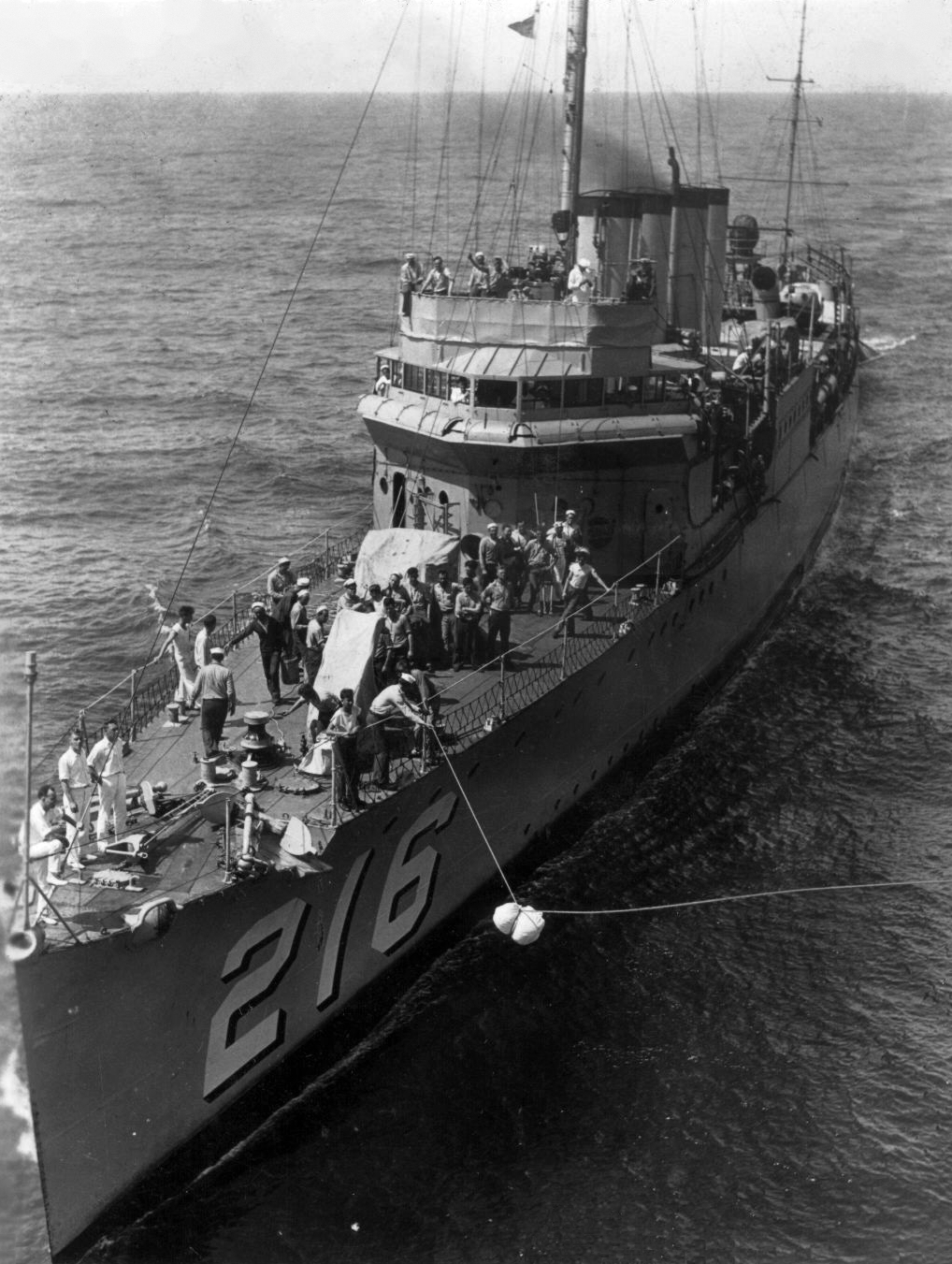 Photo of a laundry transfer between the U.S. Navy Clemson-class destroyer USS John D. Edwards (DD-216) and the aircraft carrier USS Saratoga (CV-3, not visible) off Cavite, Philippines, in the 1930s.